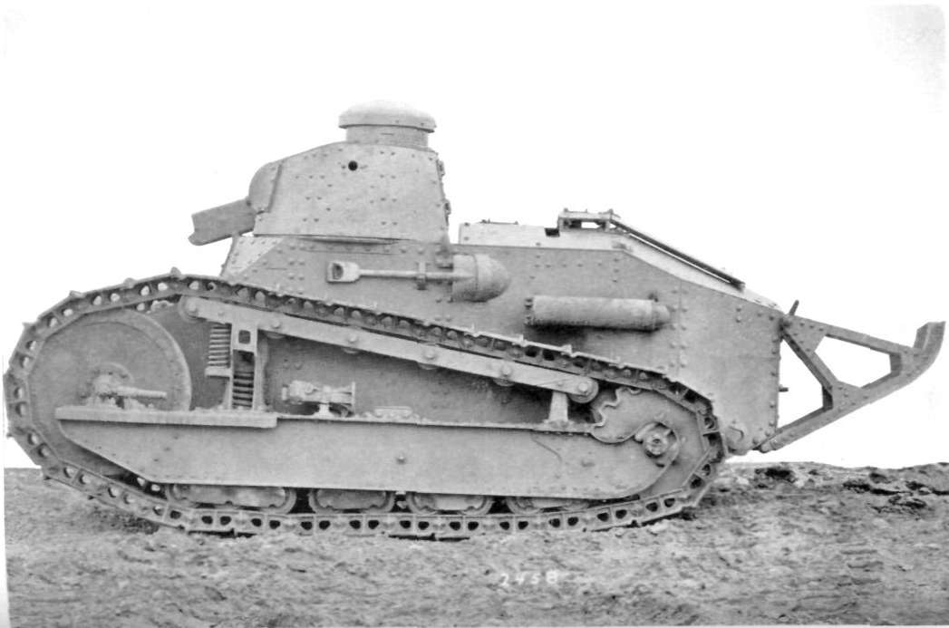 6-ton tank.